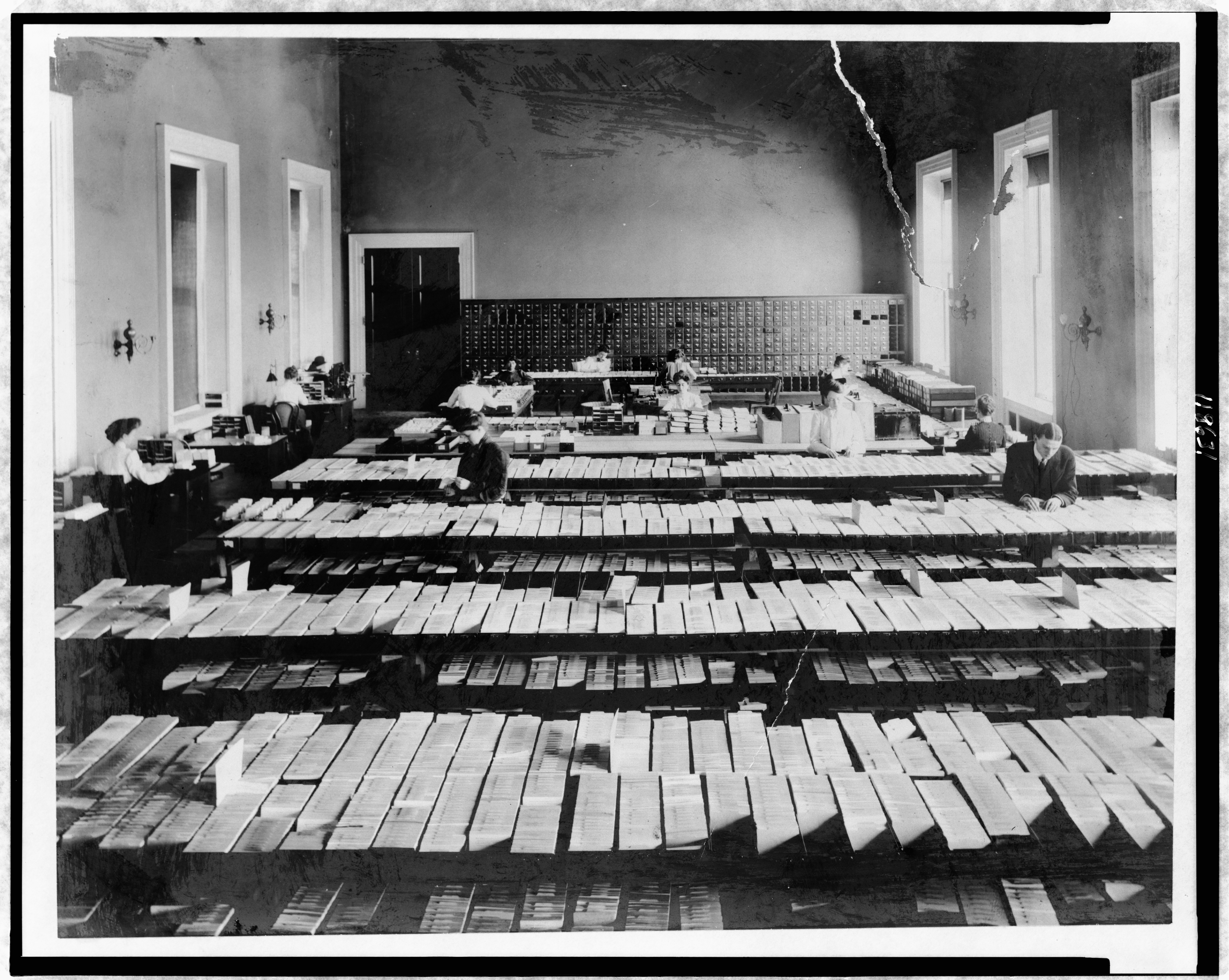 People working in Card Division in the Library of Congress, Washington, D.C.